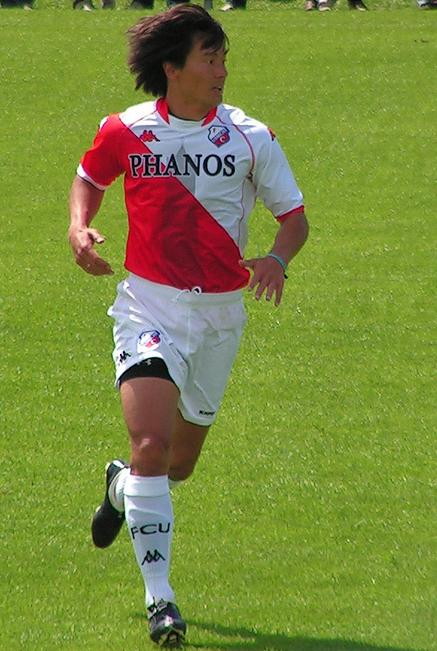 Michael Mols during a match of FC Utrecht Old Stars